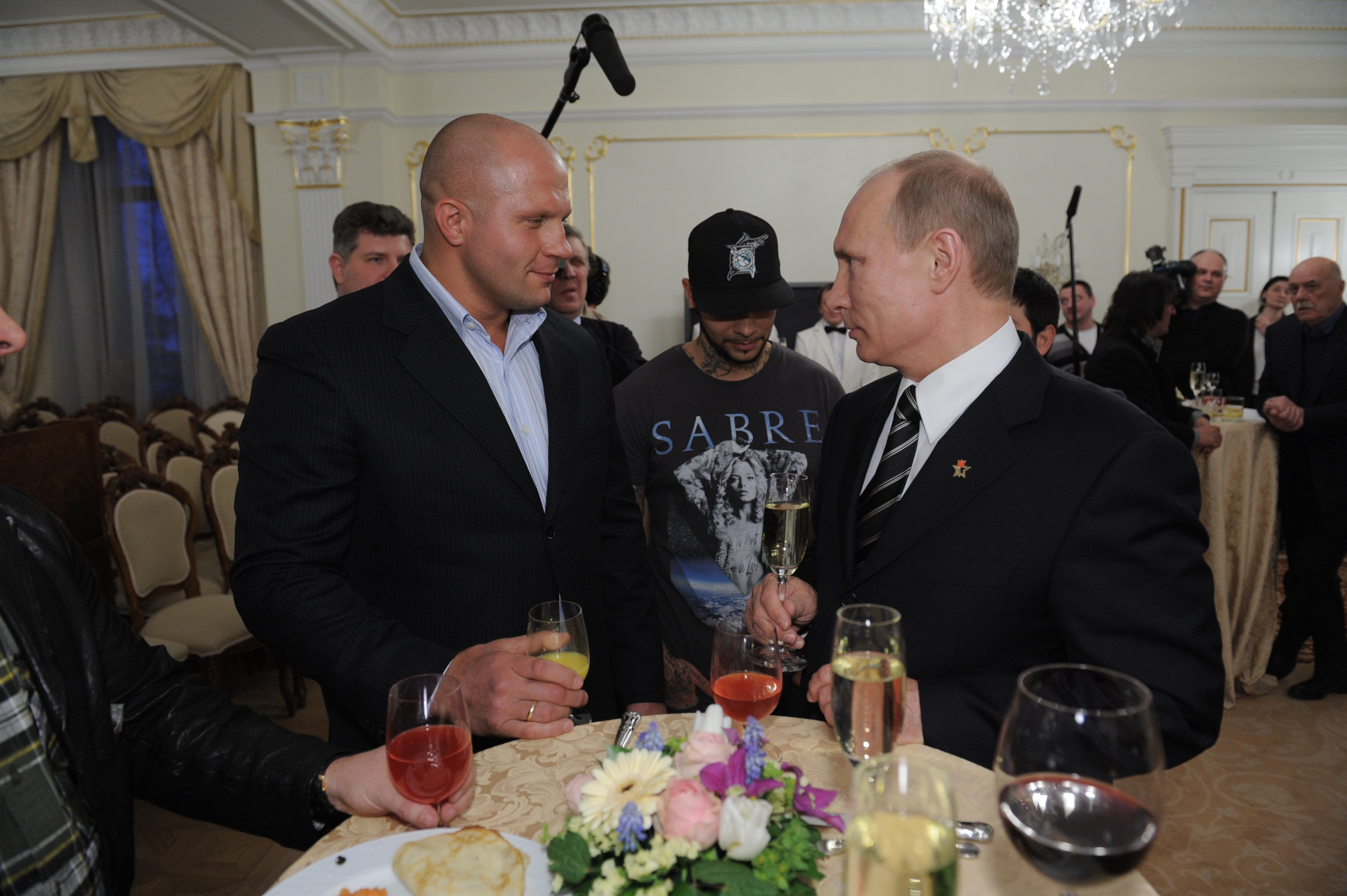 Vladimir Putin and many-time world mixed martial arts champion, Fyodor Yemelyanenko